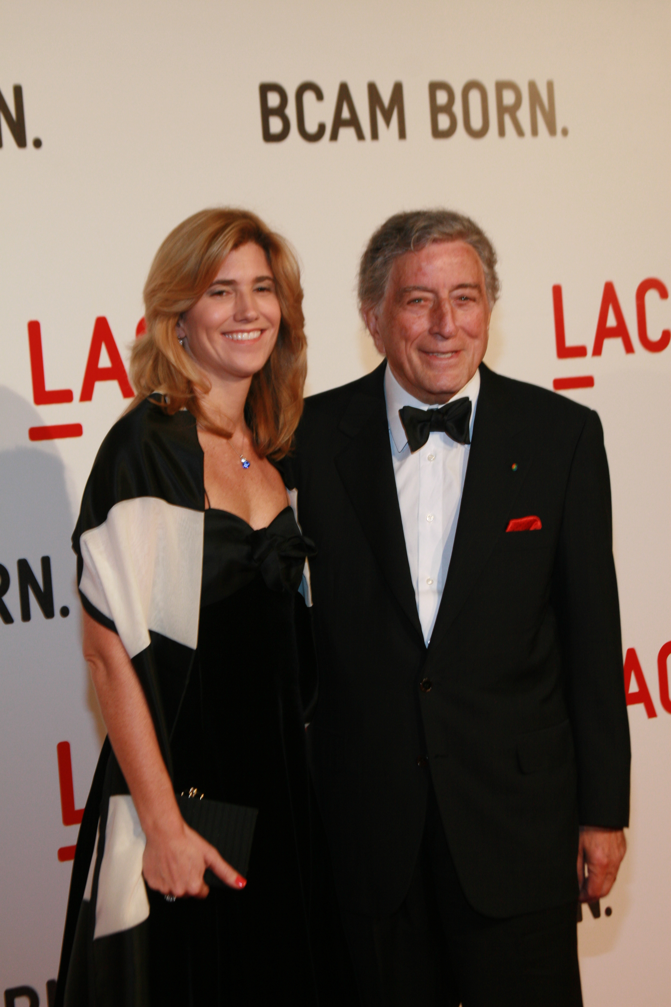 Tony Bennett and wife, Susan Crow, arrive at LACMA’s Gala Opening of the Broad Contemporary Art Museum on February 9, 2008 in Los Angeles, CA.